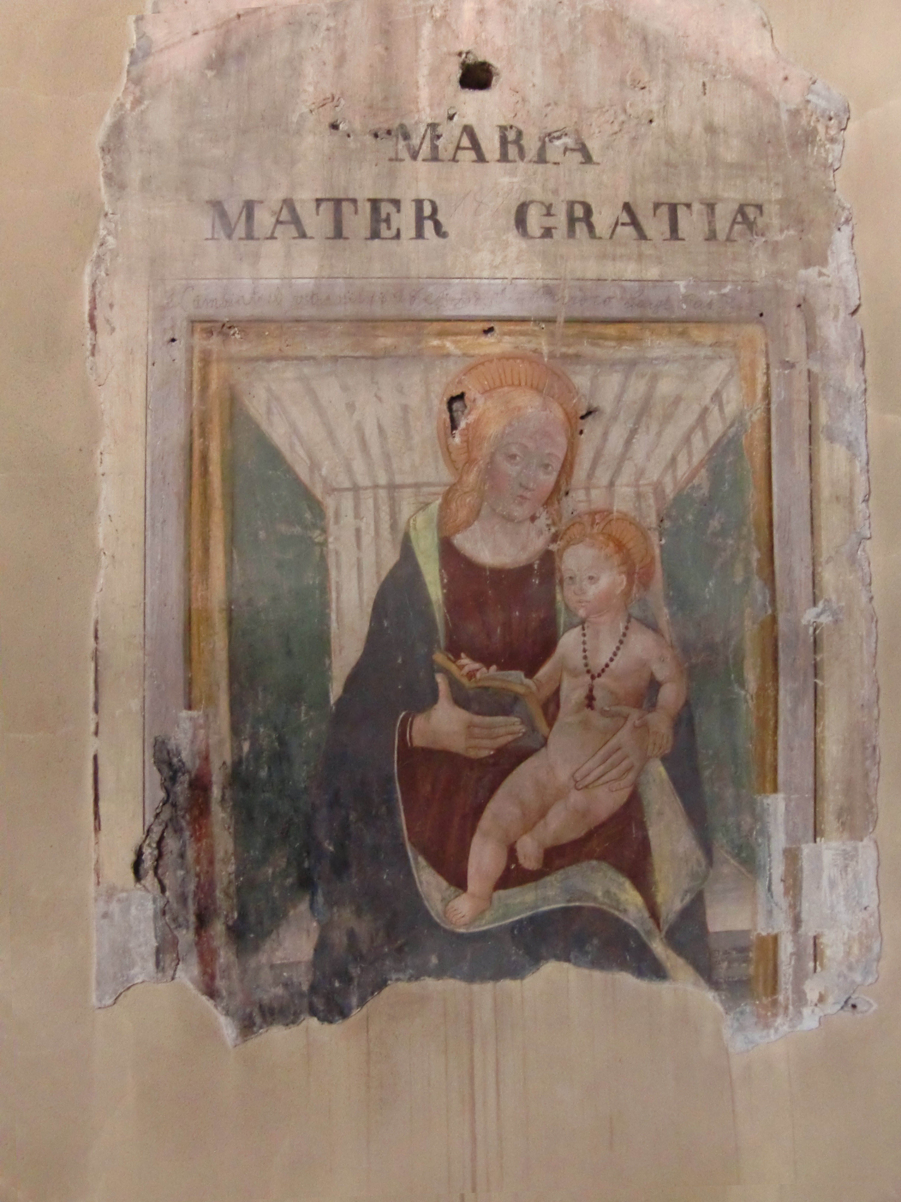 Agrate Conturbia (NO), San Vittore Church, Madonna and Child, fresco attributed to an anonymous painter of the fifteenth century conventionally called Master of Borgomanero